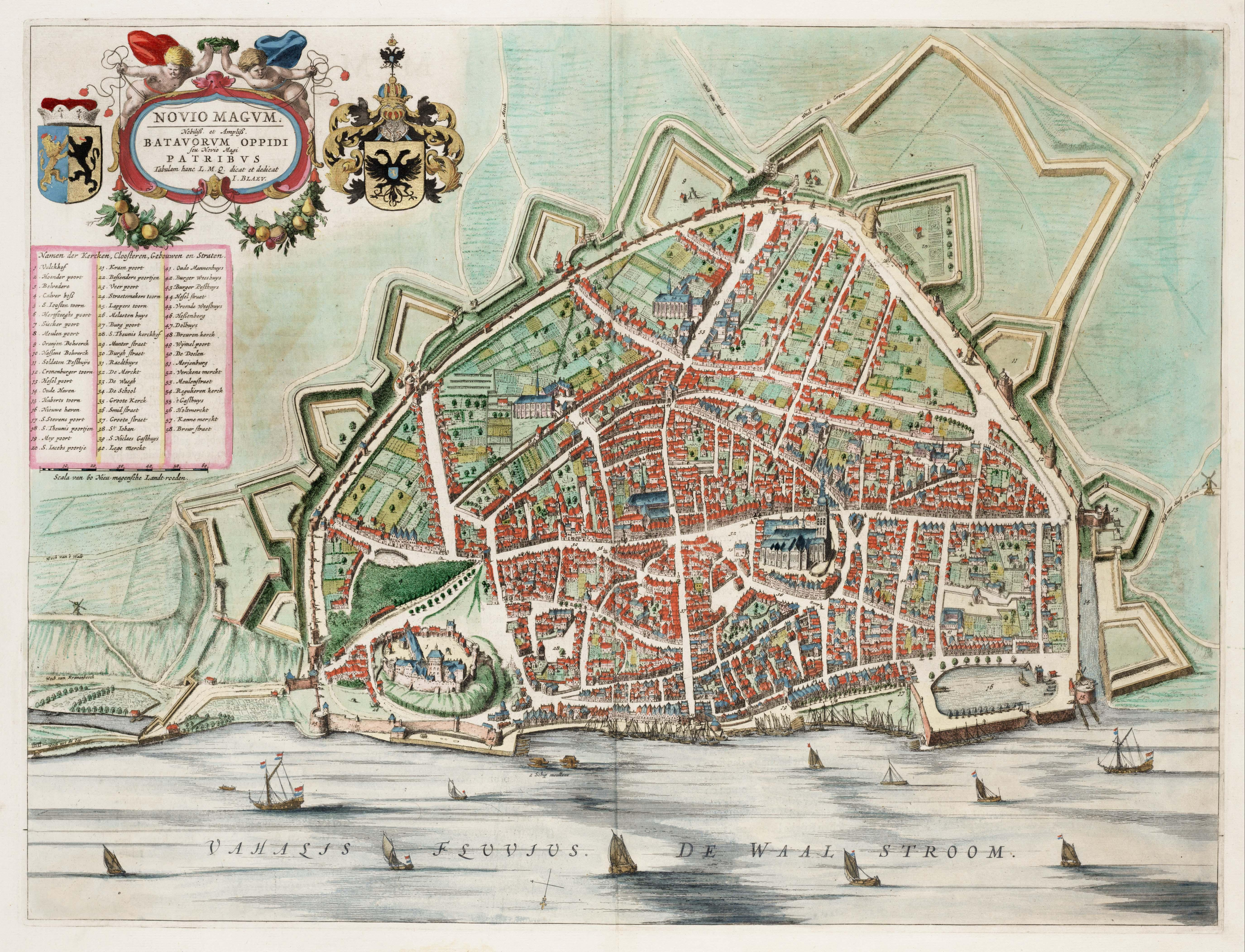 Map of Nijmegen